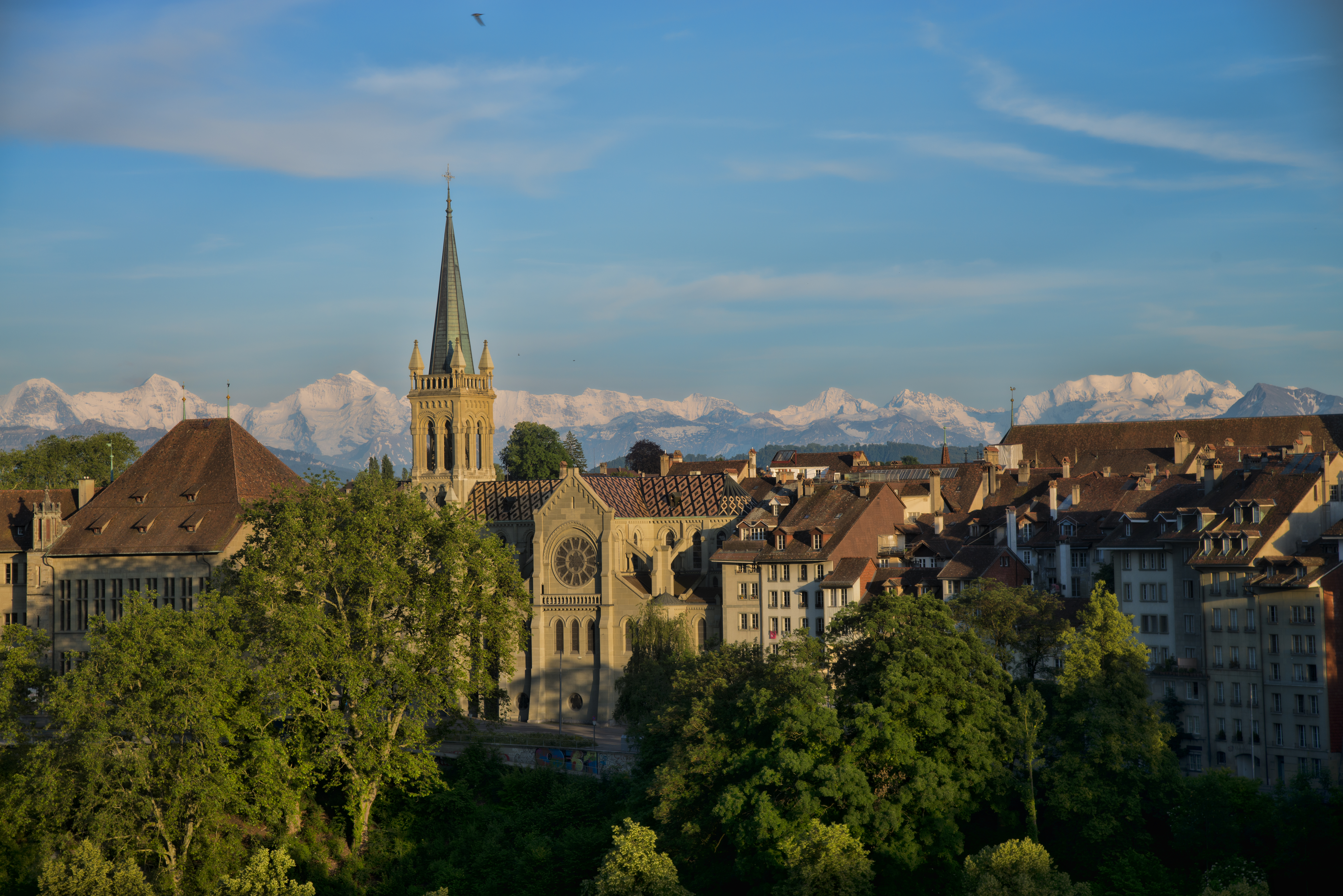 bern switzerland old town munster of burn bernese alps